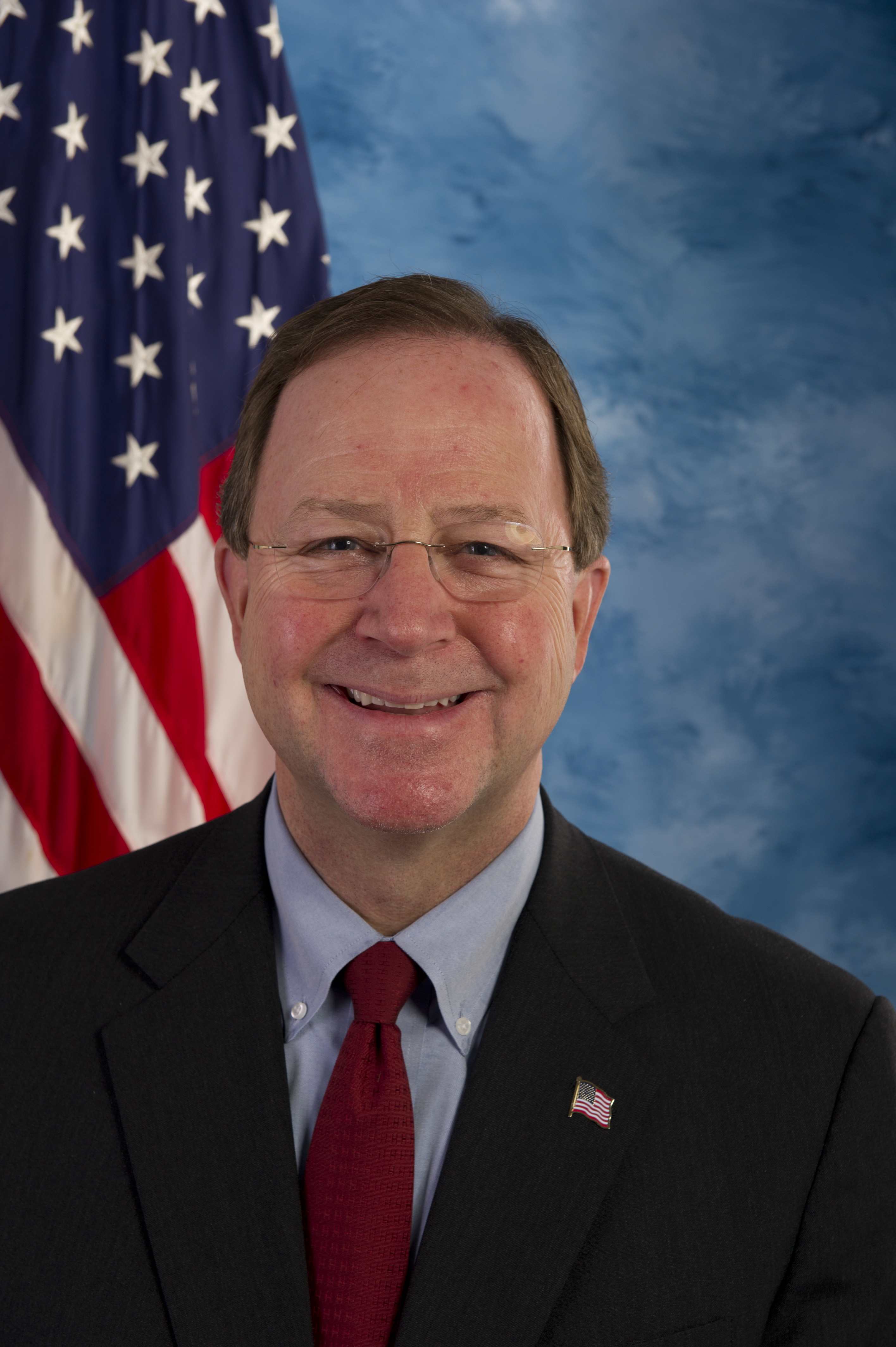 Official portrait of Rep. Bill Flores